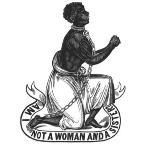 Image of an antislavery medallion of the late 18th century, from the British Museum (female version of classic early abolitionist "AM I NOT A MAN AND A BROTHER?" graphic).